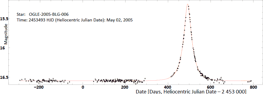 Example light curve of Gravitational Microlensing event - OGLE-2005-BLG-006